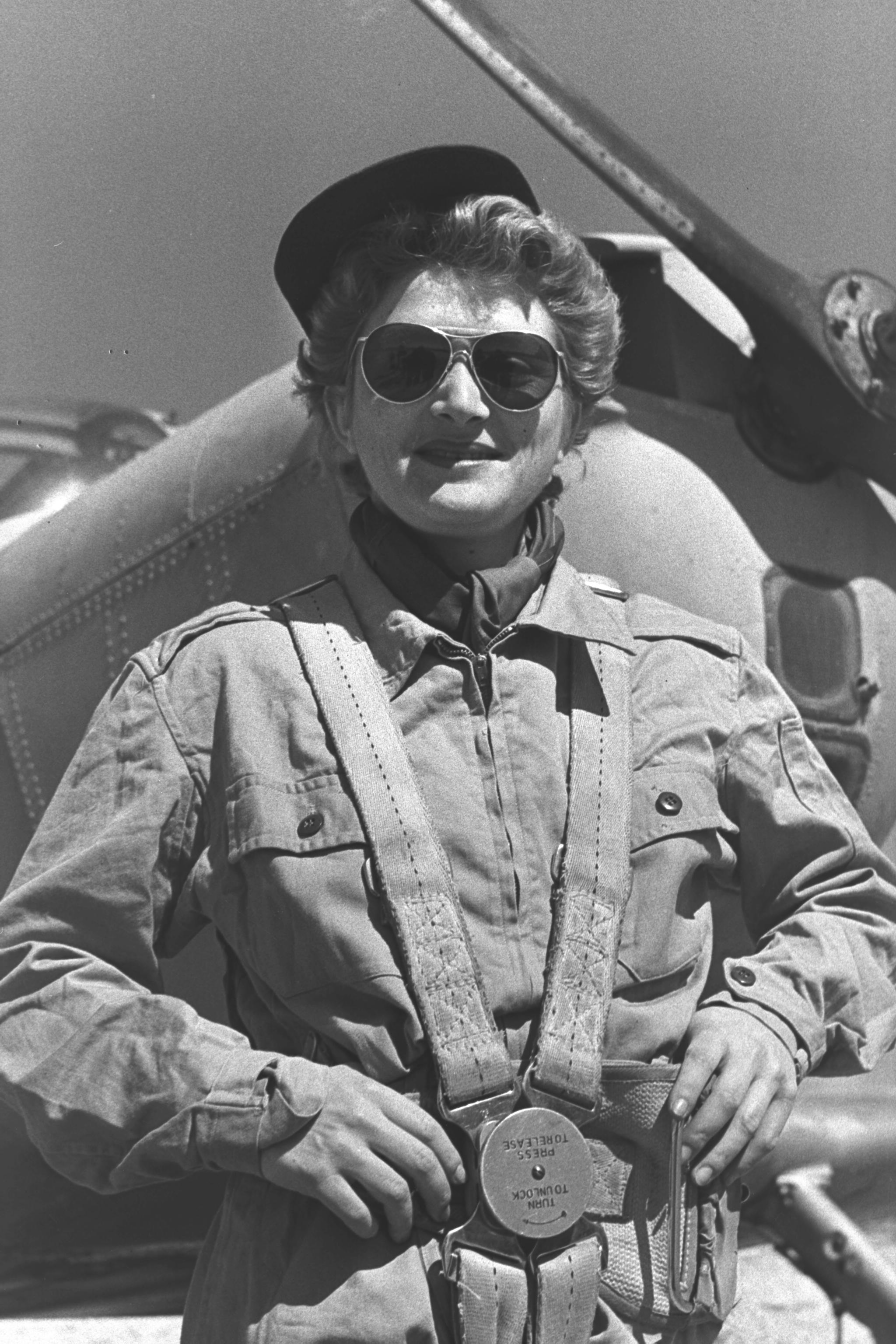 Original Description: RINA LEVINSON, A PILOT IN THE ISRAELI AIR FORCE.